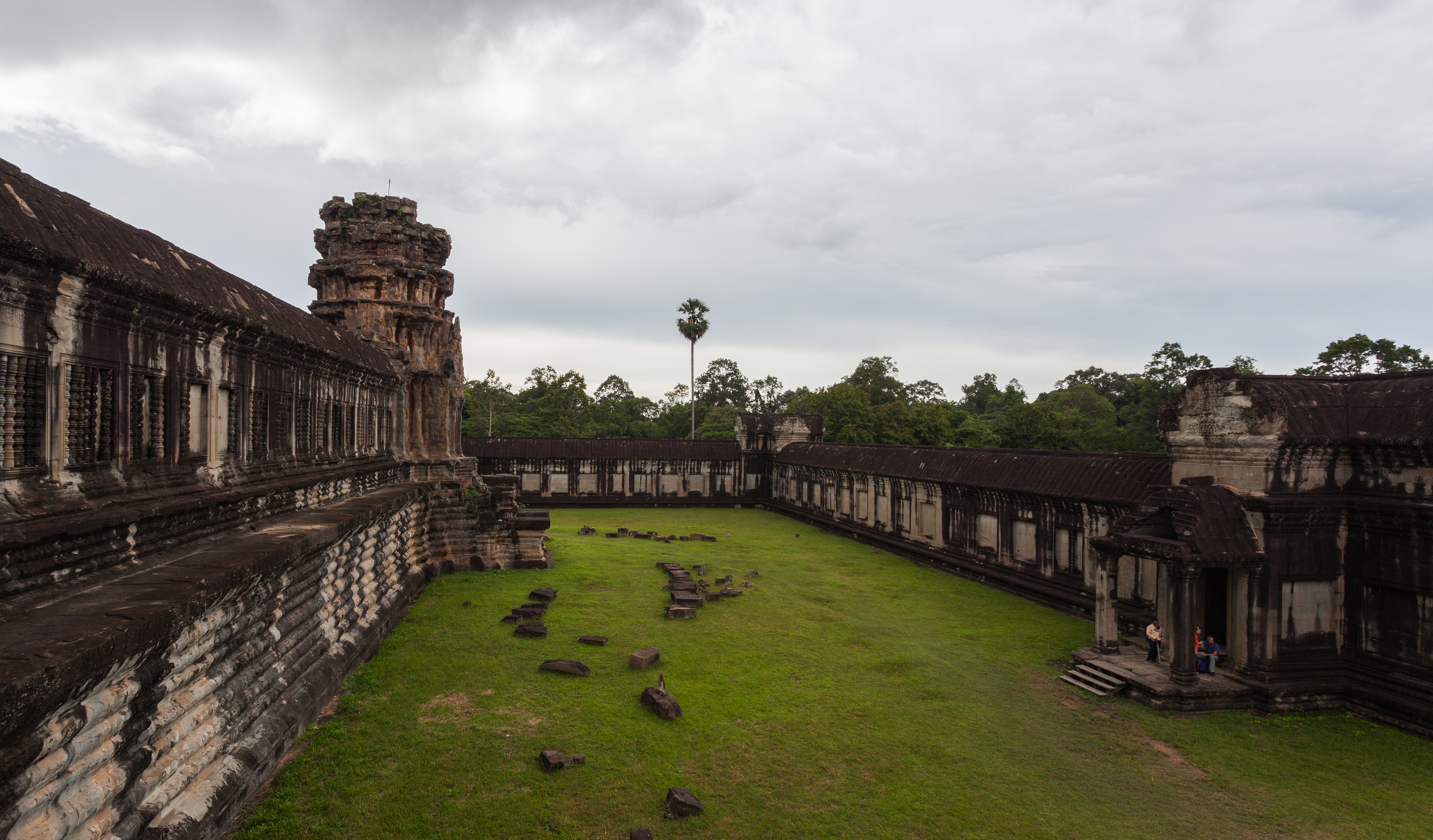 Angkor Wat, Cambodia